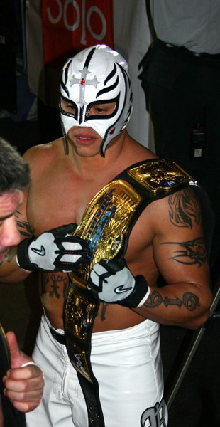 Cropped version of the original image (ReyAndEddie). Rey Mysterio with the WWE tag Team Championship after trying to steal them with Eddie Guerrero from then Champs (The Basham Brothers) during a WWE house show held in Kitchener, Ontario, Canada on January 22, 2005.